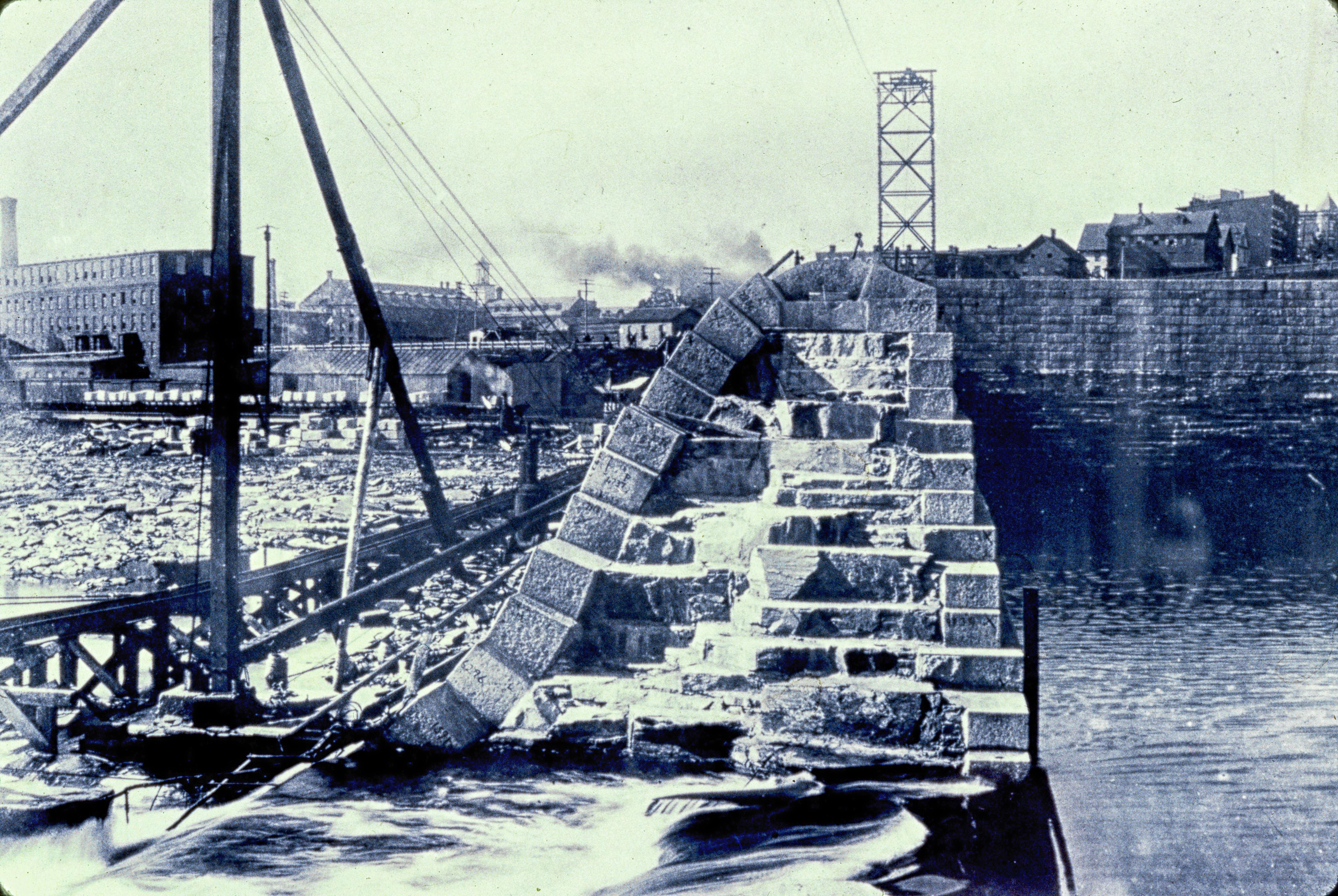 A cross section photograph of the Holyoke Dam during the third and present structures construction in the late 1890s, showing the combined inner masonry and outer granite cap. The tower in the background is one of two belonging to once the largest cableway in the world, used for transporting some materials along the height of the structure, in tandem with the narrow gauge rail (seen left) and several cranes.